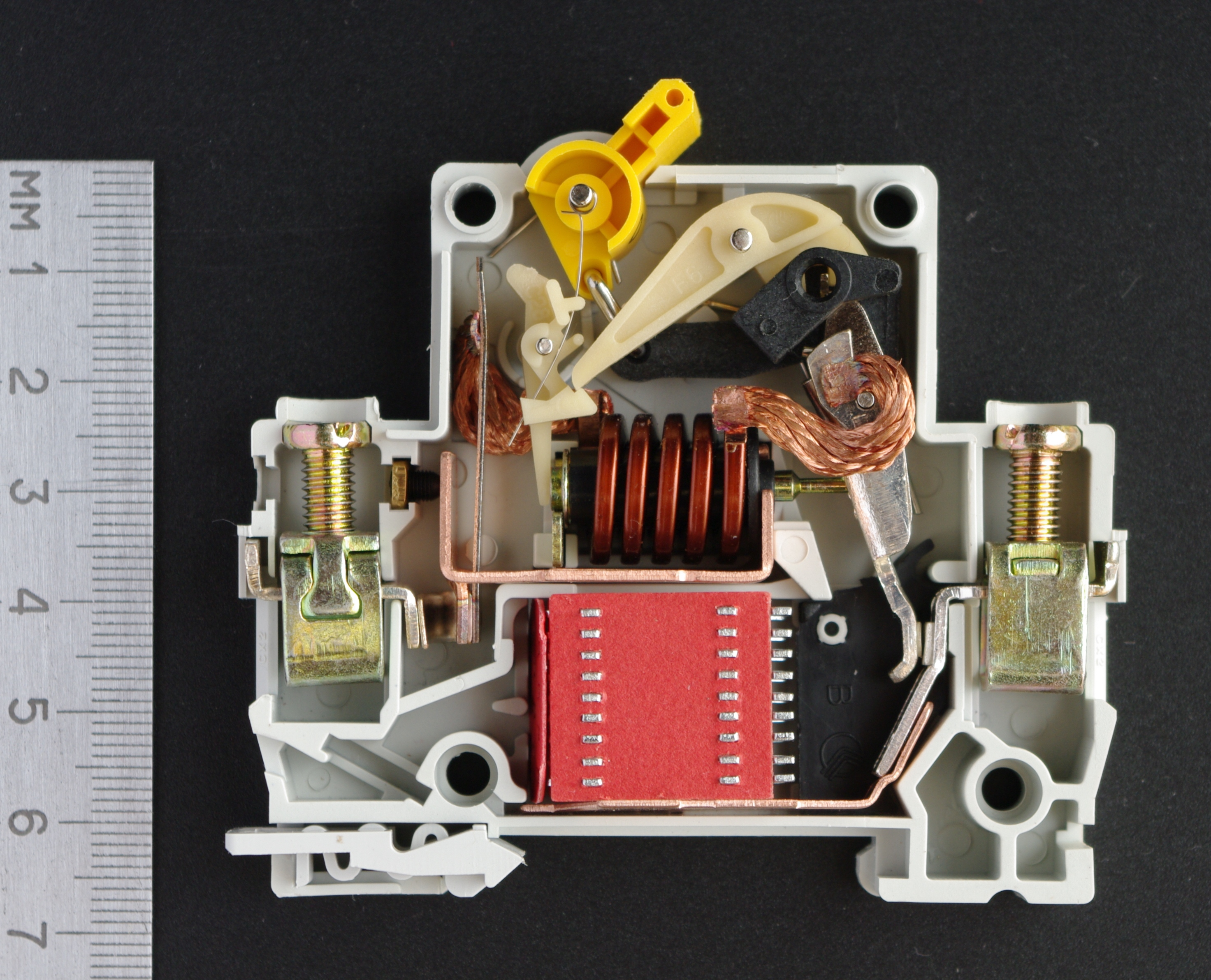 Structure of IEK C40 circuit breaker in ON state